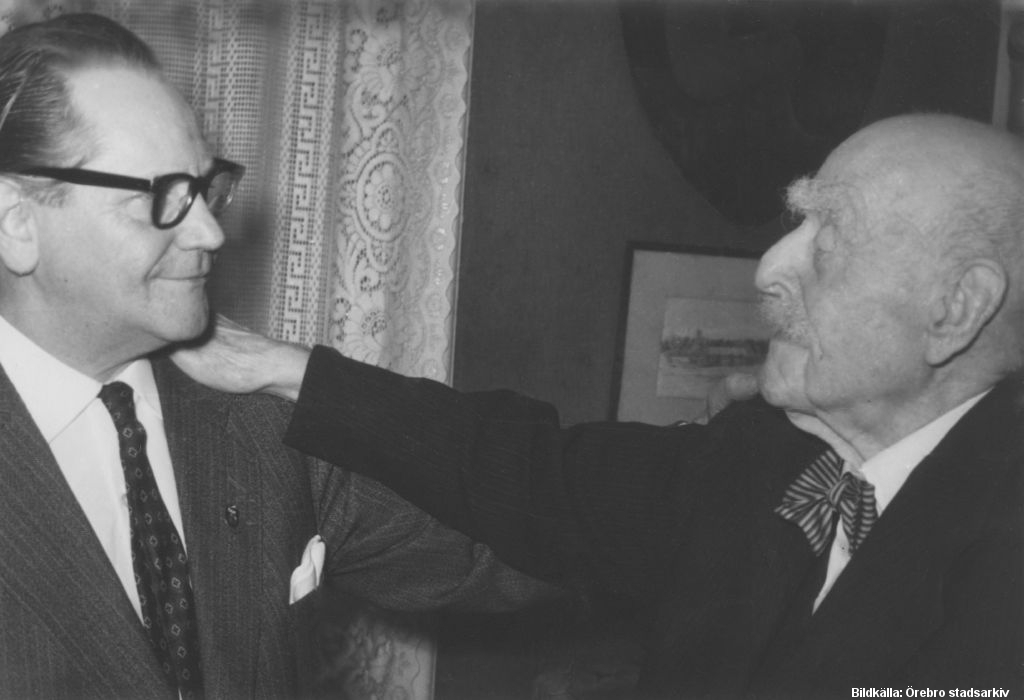 The artist Gösta Ottoson (1902-1980) and the poet Levi Rickson (Jeremias i Tröstlösa).